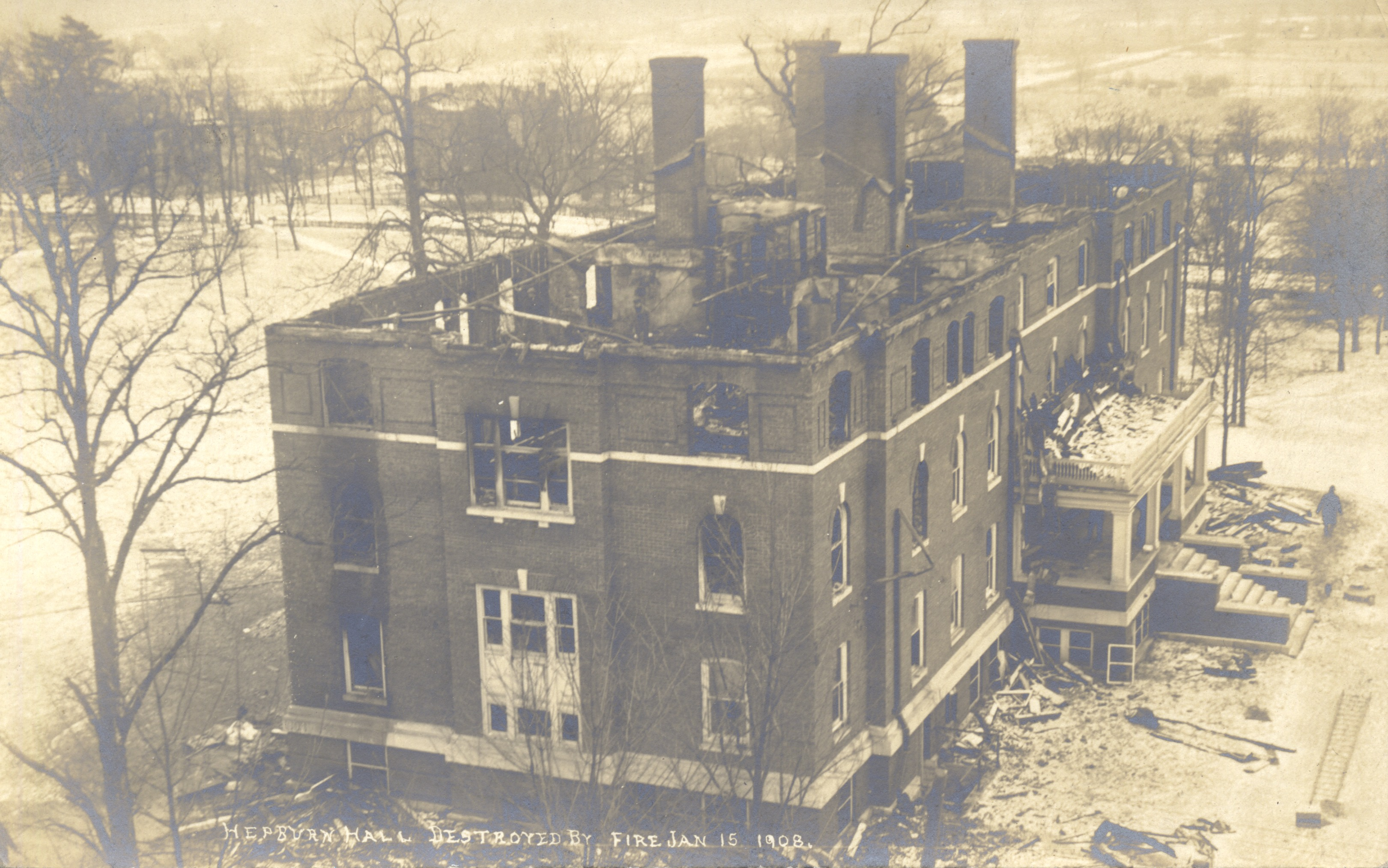 Persistent URL: Subject (TGM): Universities colleges; Brickwork; Dormitories; Fires; Ohio--Oxford